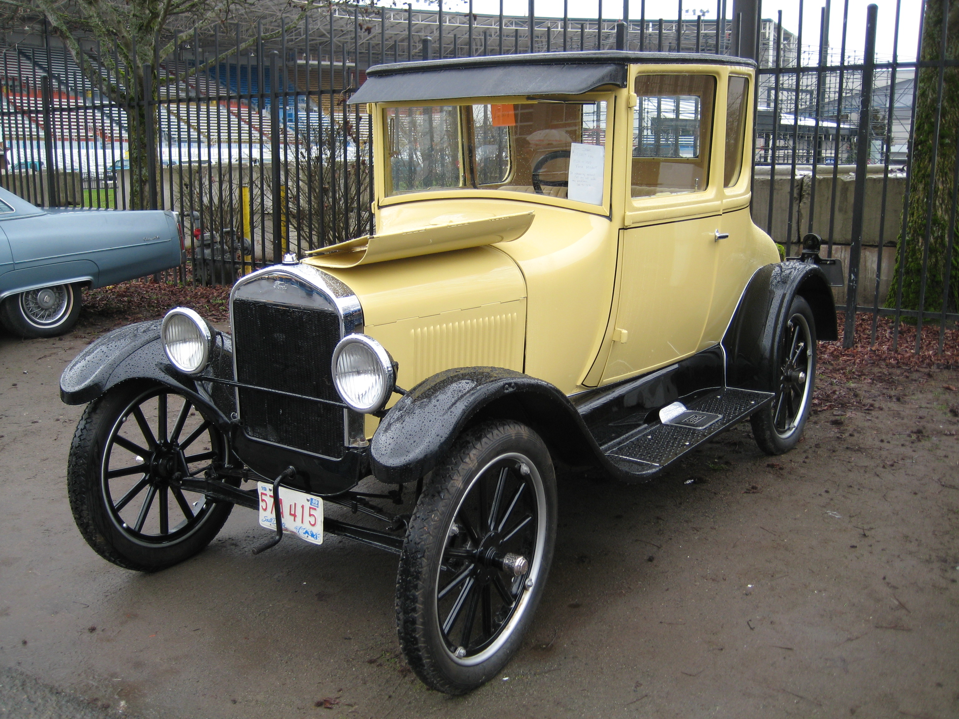 Seen at the Early Bird Swap Meet in February 2010, Puyallup, Washington. Long time meet held in the winter, filled with project cars, and not very many finished ones.